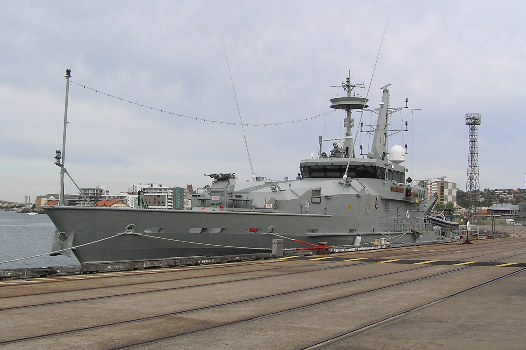 The Armidale class patrol boat HMAS Maitland (ACPB 88) on the day of her commissioning at Newcastle, New South Wales